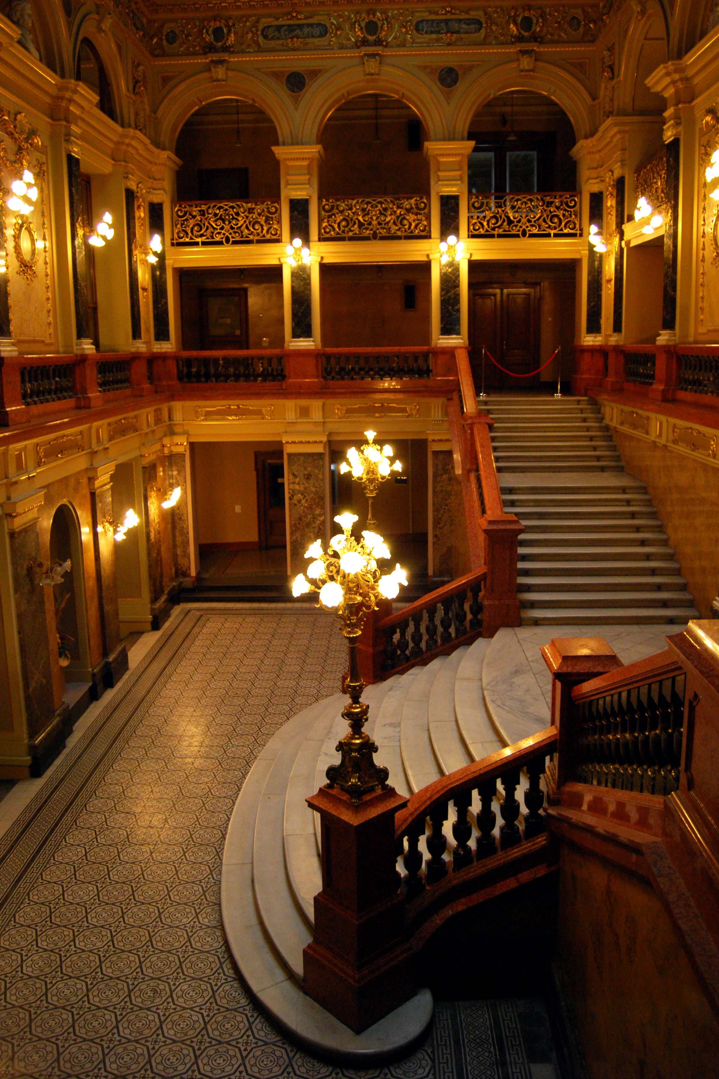 Lviv Theatre of Opera and Ballet